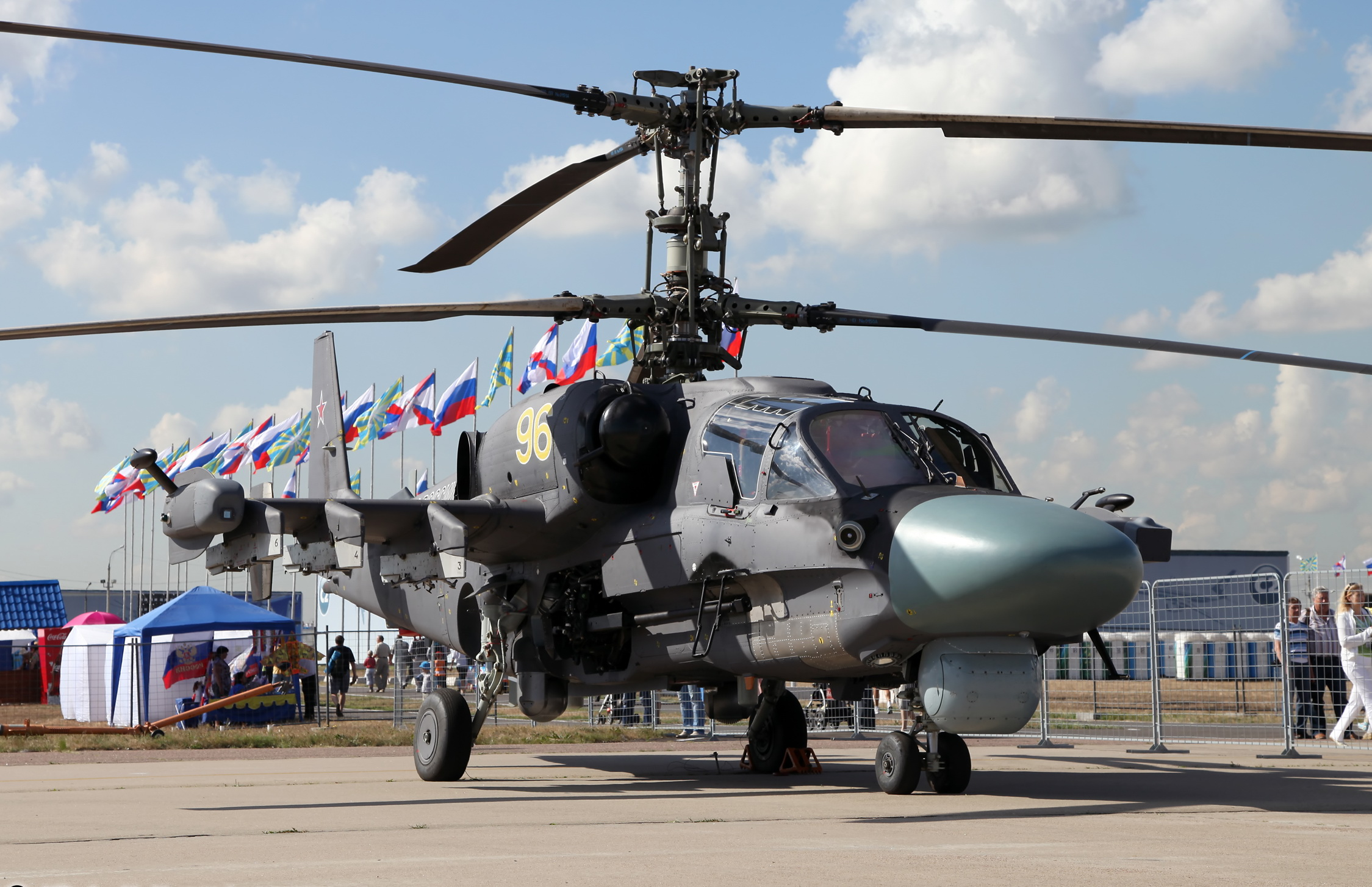 Ka-52 helicopter